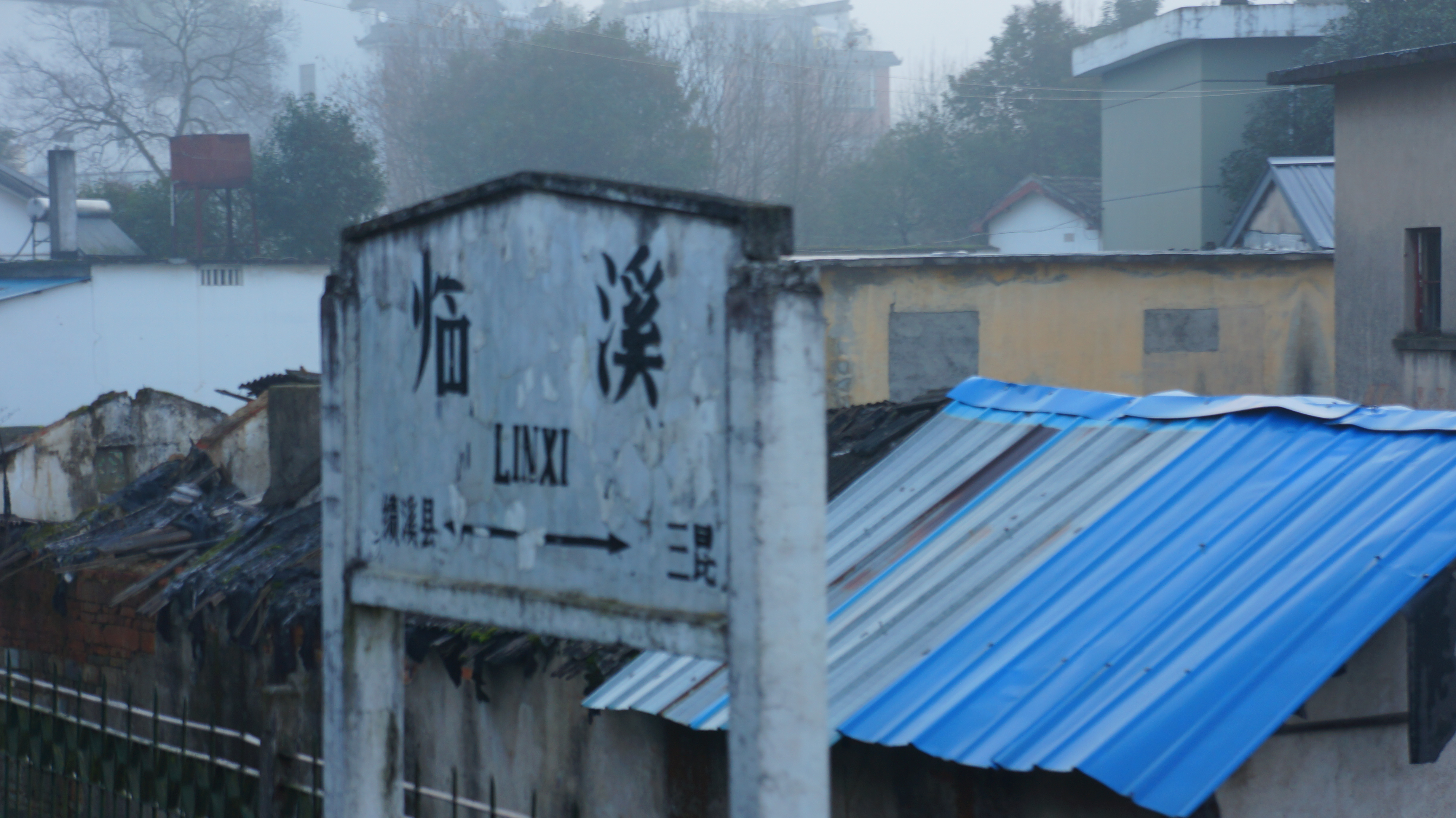 201601, Linxi Railway Station